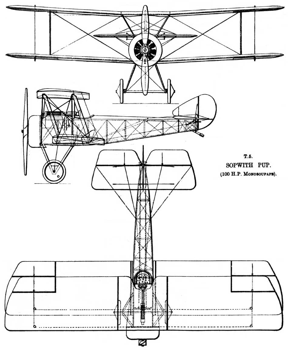 Sopwith Pup single seat fighter drawing